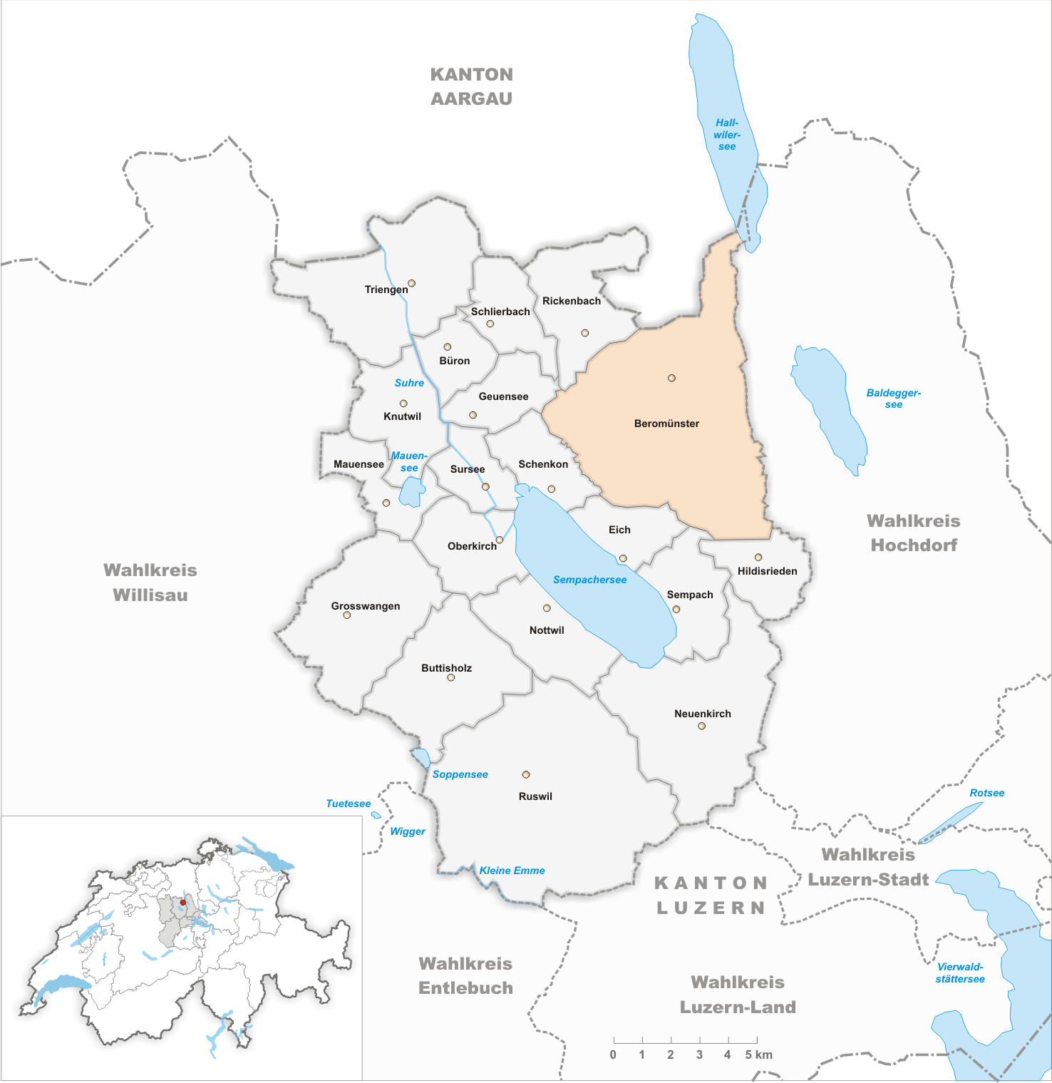 Municipality Beromünster